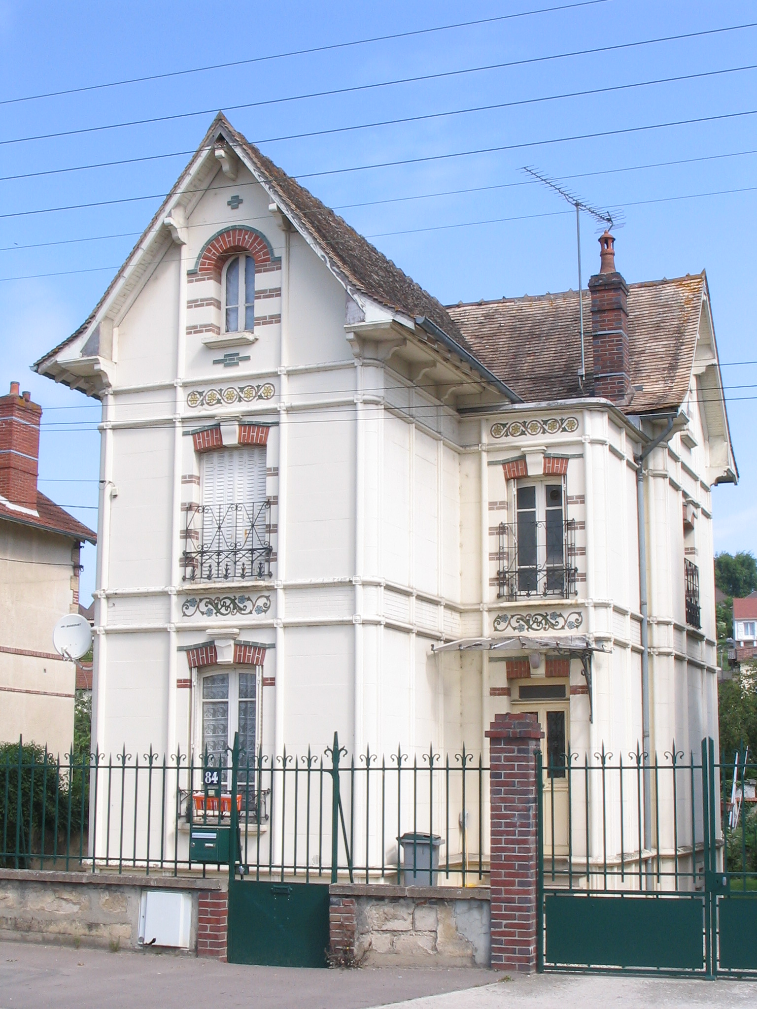 One of the "Bérard houses", in Migennes, Yonne, France.